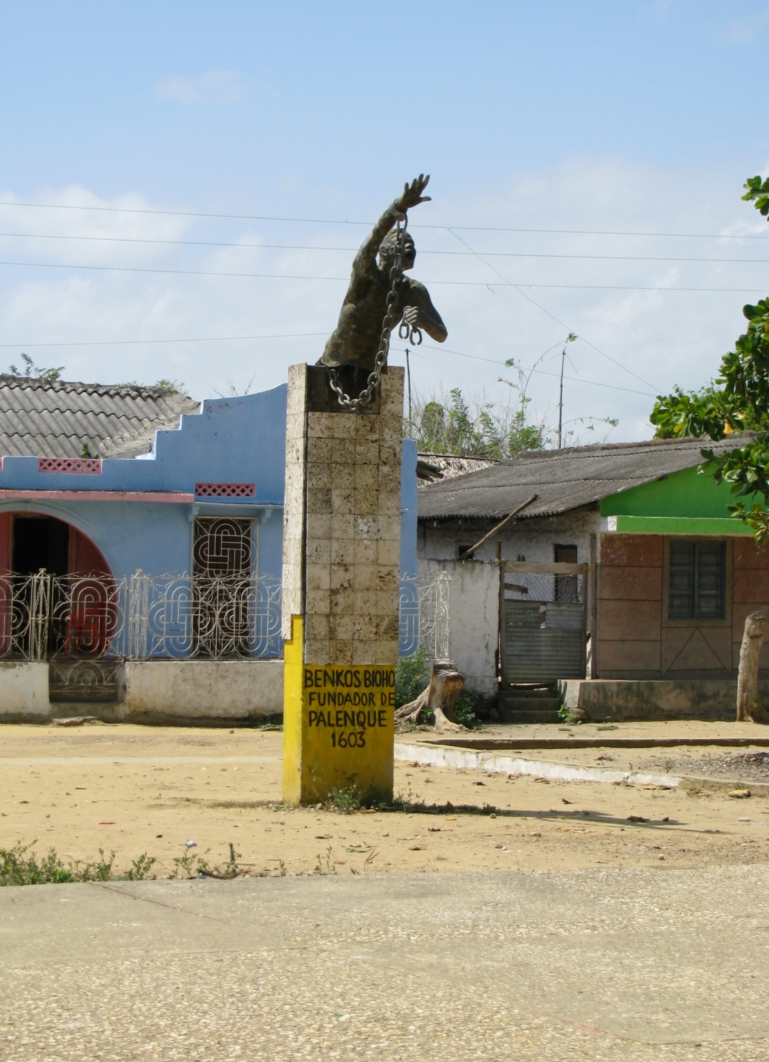 Statue of Benkos Bioho in the main square of Palenque, Colombia